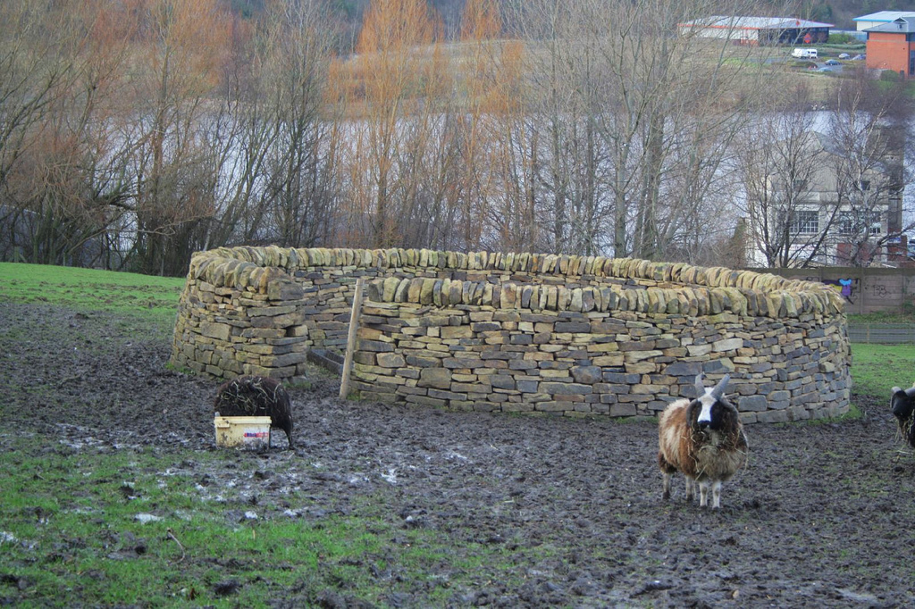 A sheep standing outside a dry stone sheepfold